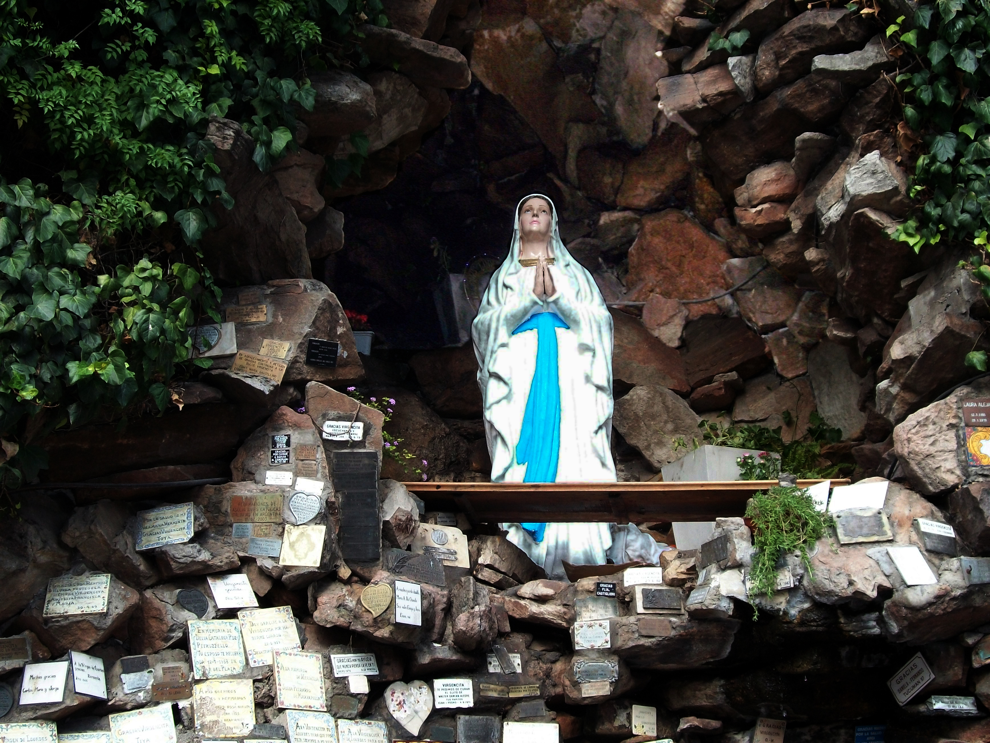 Statue of Our Lady of Lourdes, Lourdes Grottoe, Mar del Plata, Argentina